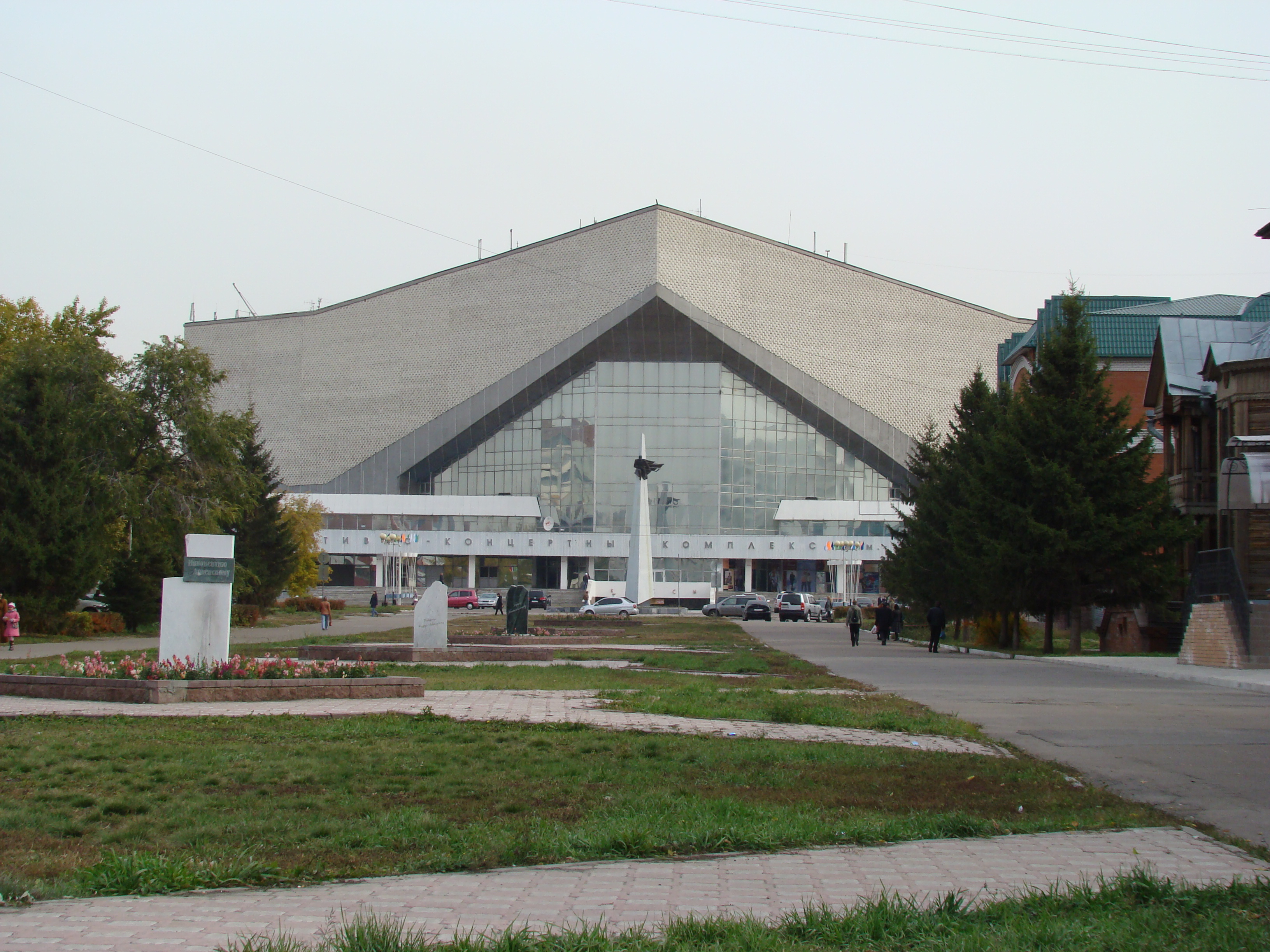 Sports-Concerts Complex Viktora Blinova, old name: SKK Irtysh